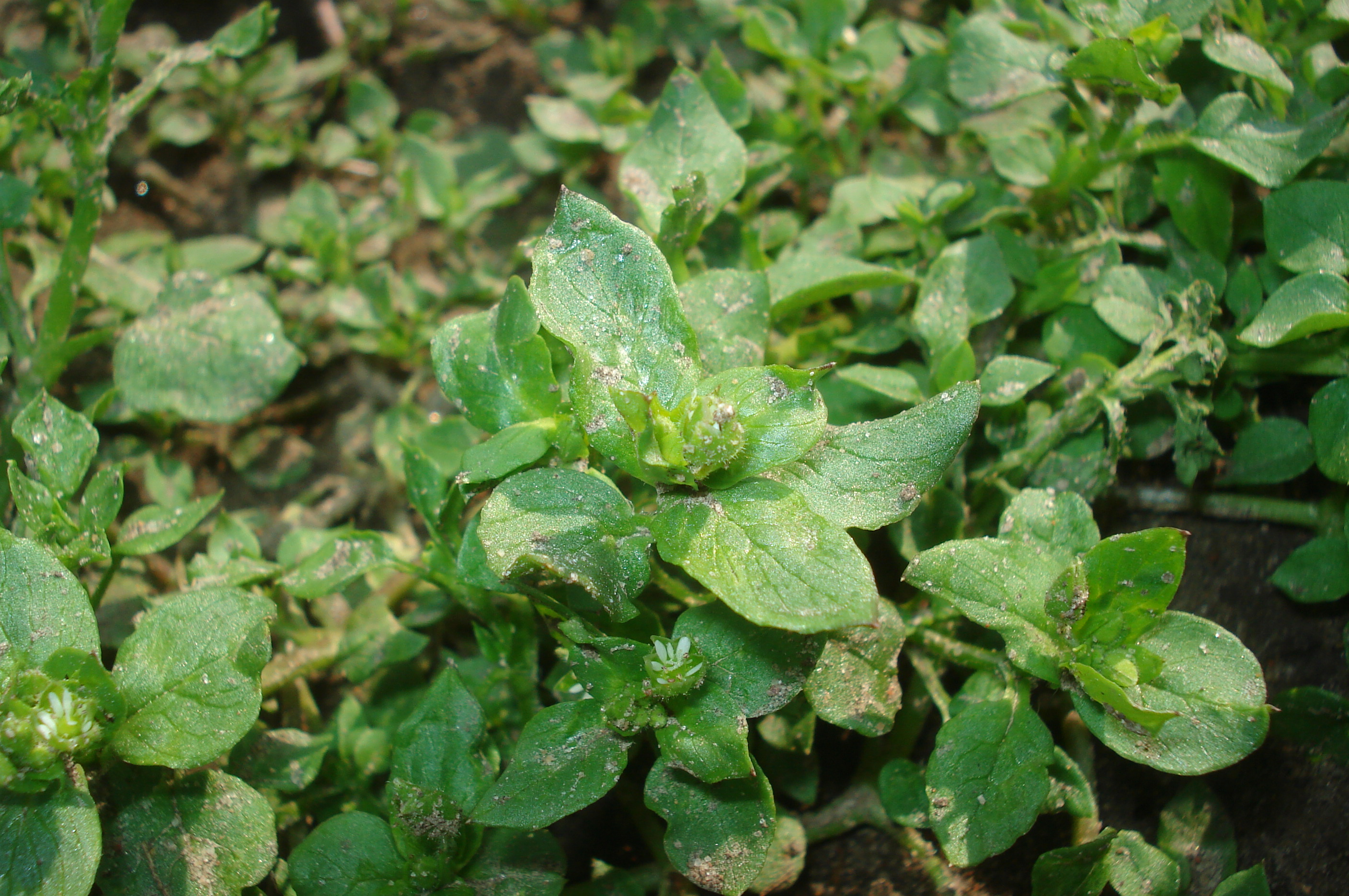 Chickenwort, Craches, Maruns, Winterweed, or Common Chickweed (Stellaria media). Found in Berzi near Bauska city, Latvia